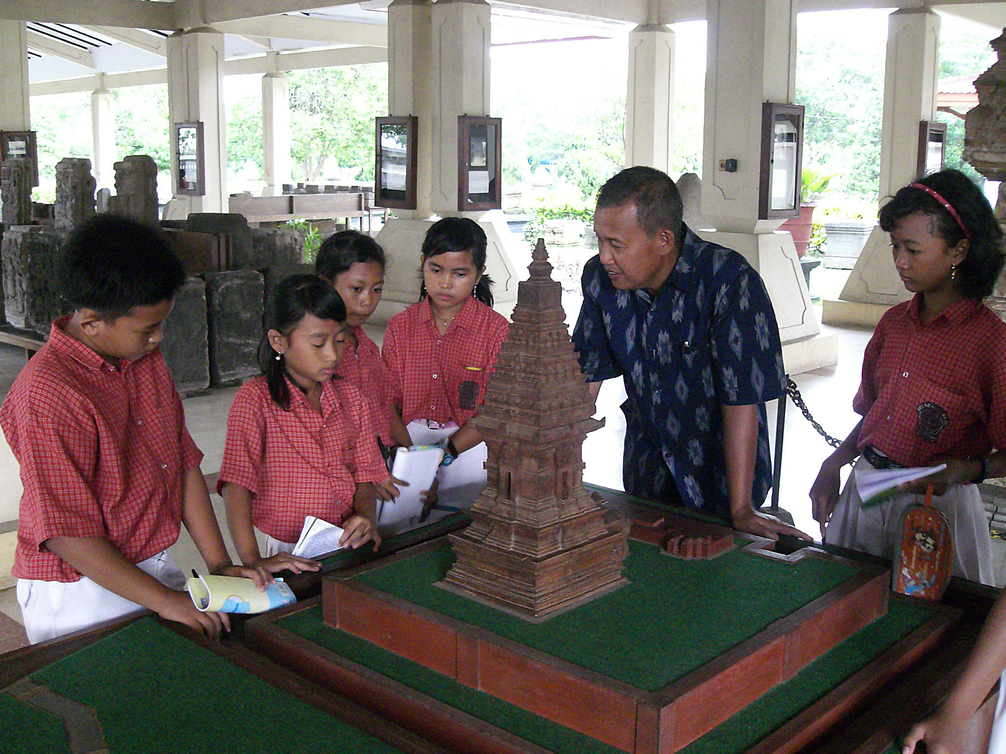 The students listen the explanation and examine the model of Candi Jawi during their study tour at Trowulan Museum, East Java, Indonesia.